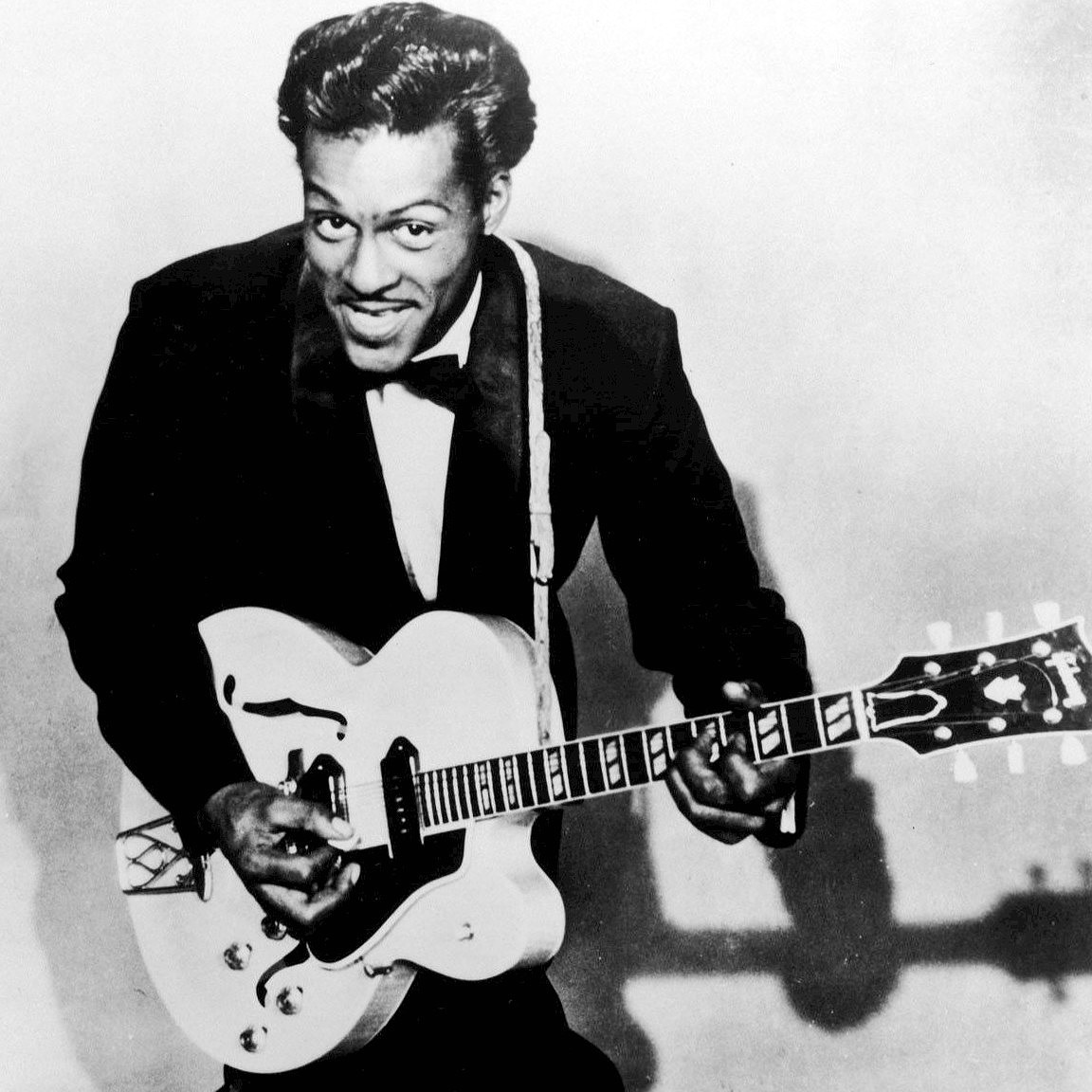 Publicity photo of Chuck Berry